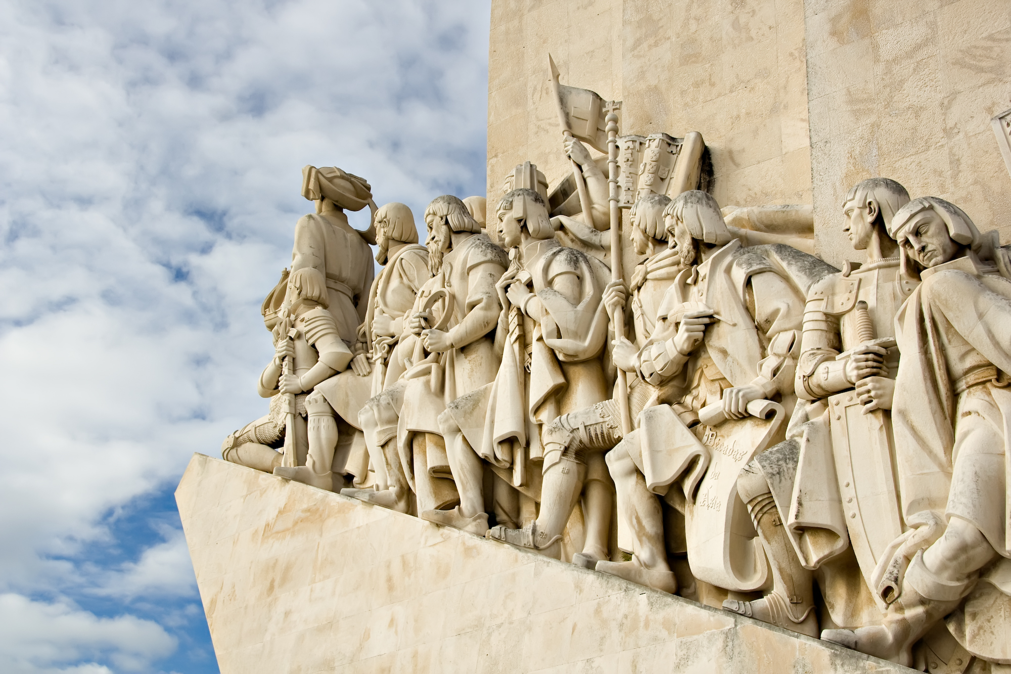 Padrão dos Descobrimentos. The Monument to the Discoveries is a monument that celebrates the Portuguese who took part in the Age of Discovery of the 15th and 16th centuries. It is located on the estuary of the Tagus river in the Belém parish of Lisbon, Portugal, where ships departed to their often unknown destinations.